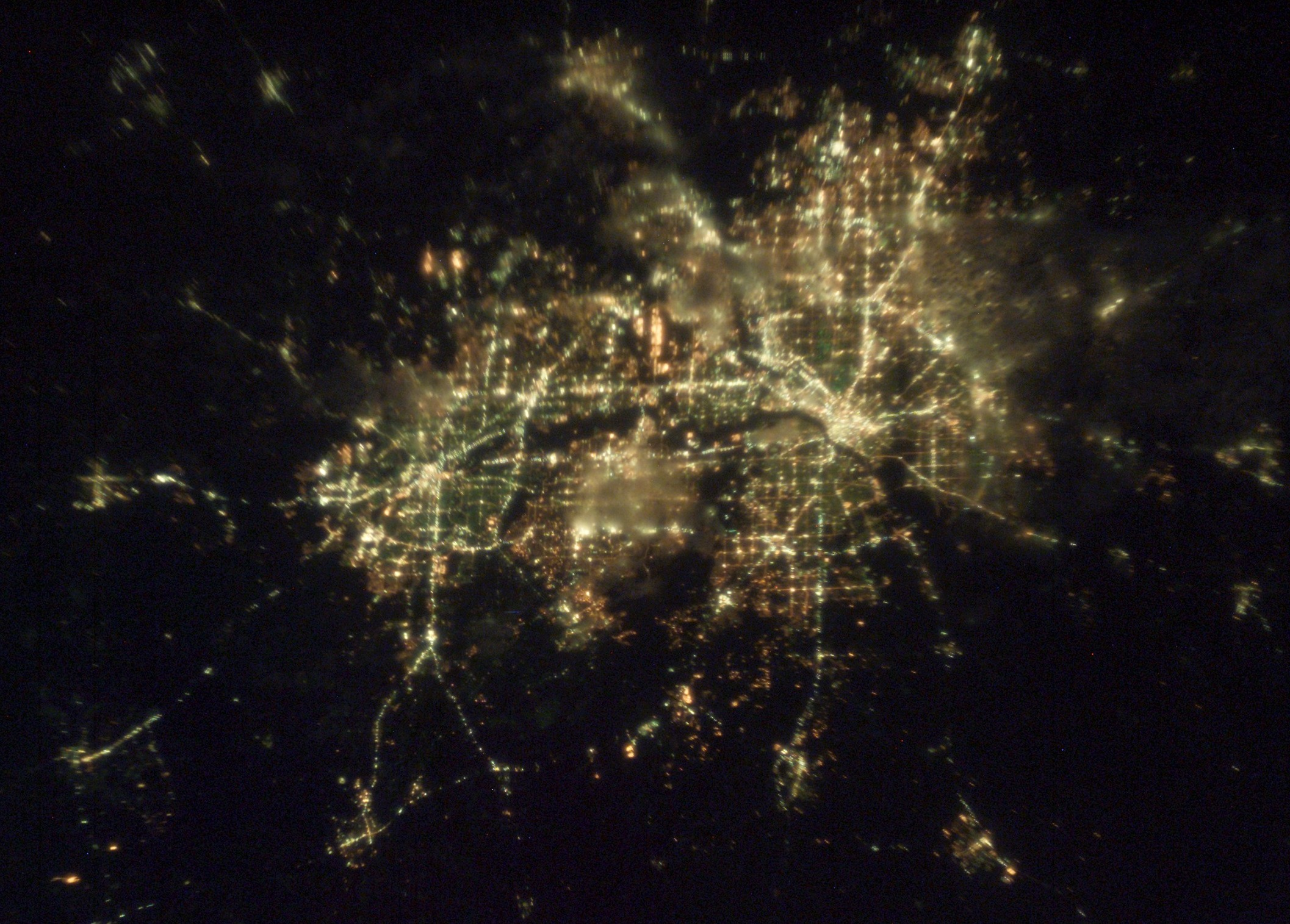 Dallas-Fort Worth area at night, from the International Space Station.